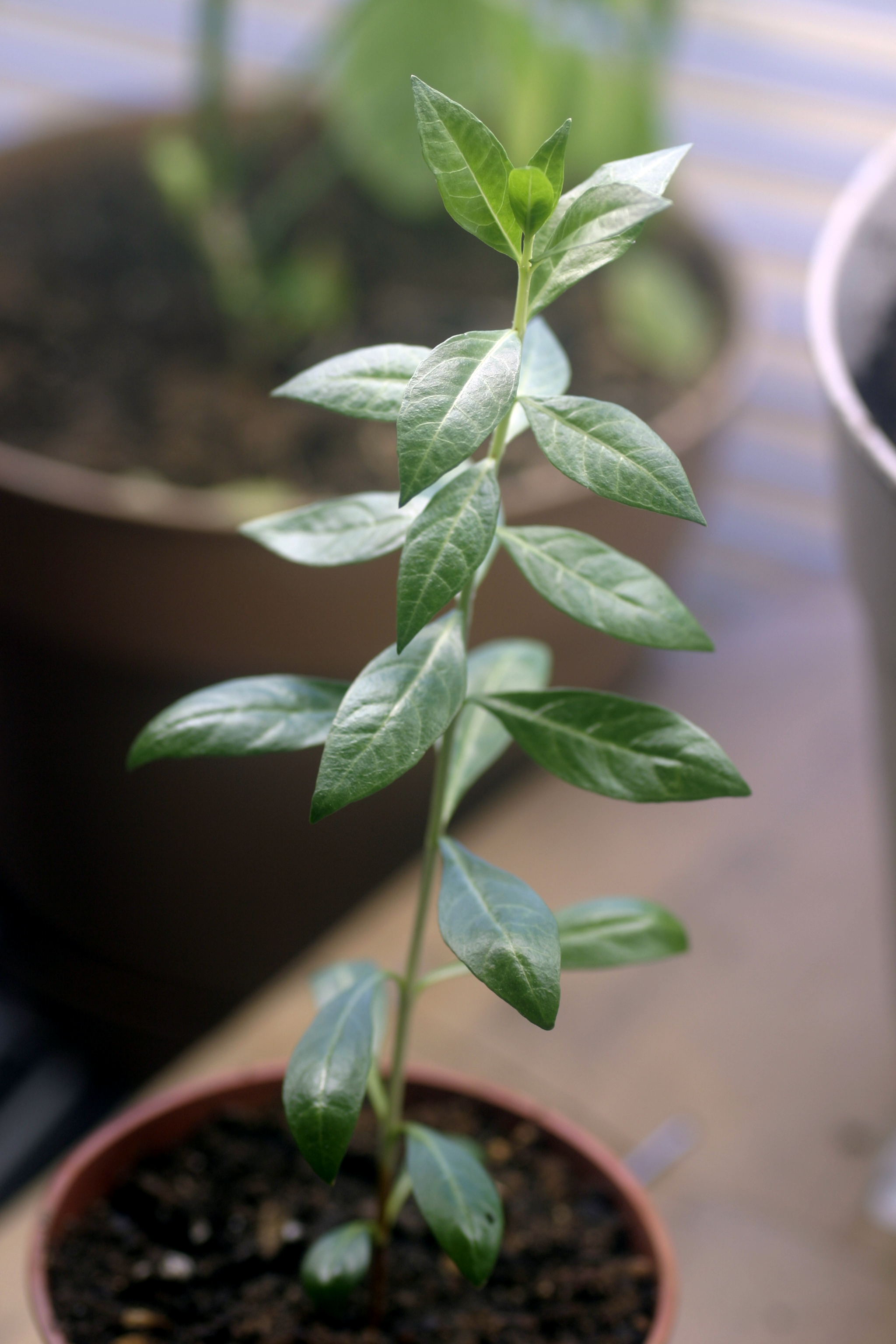 A three month old Henna (Lawsonia inermis) plant.